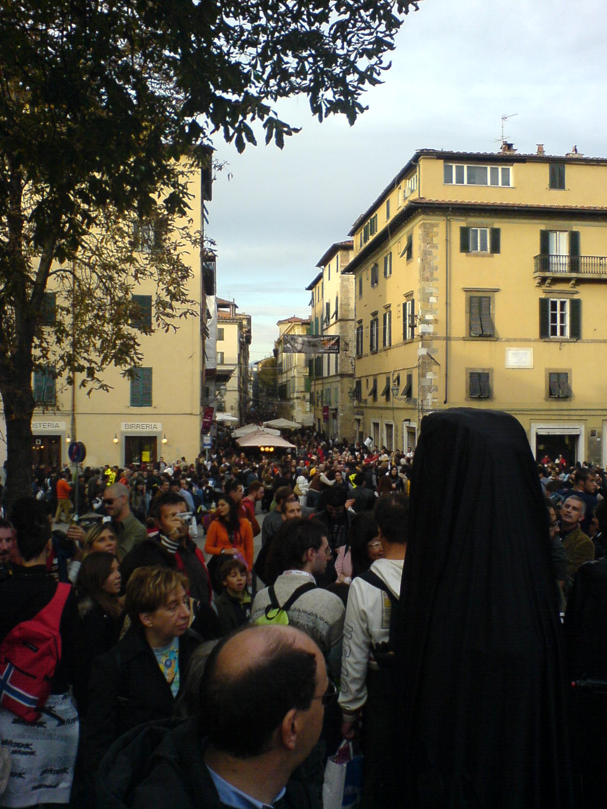 Crowd in Piazzale Umberto I during the last day of Lucca Comics and Games 2007.